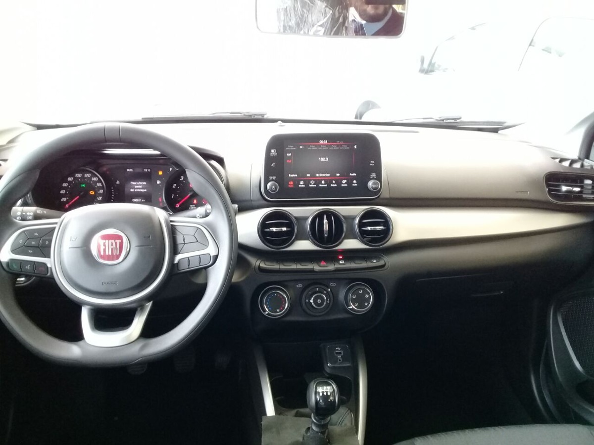 Fiat Argo UConnect